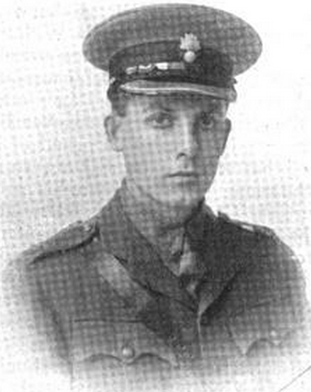 Lionel de Jersey Harvard (3 June 1893 – 30 March 1918), "the only Harvard to attend Harvard", in his World War I uniform